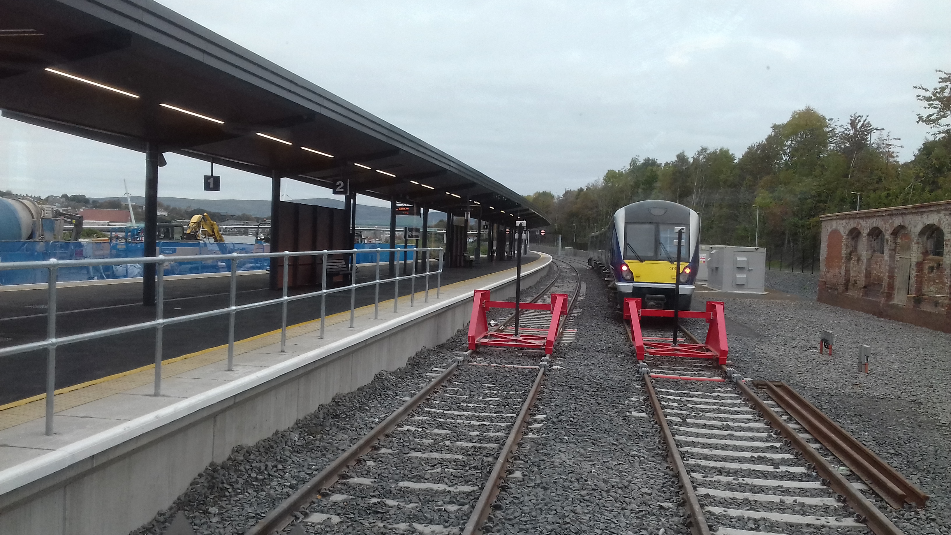 Looking out the window of the station building onto the platforms and the track, with 4000 Class DMU stabled in the siding. Photo taking on opening day 2019 after the refurbishment as such some minor items such as lampposts are unfinished